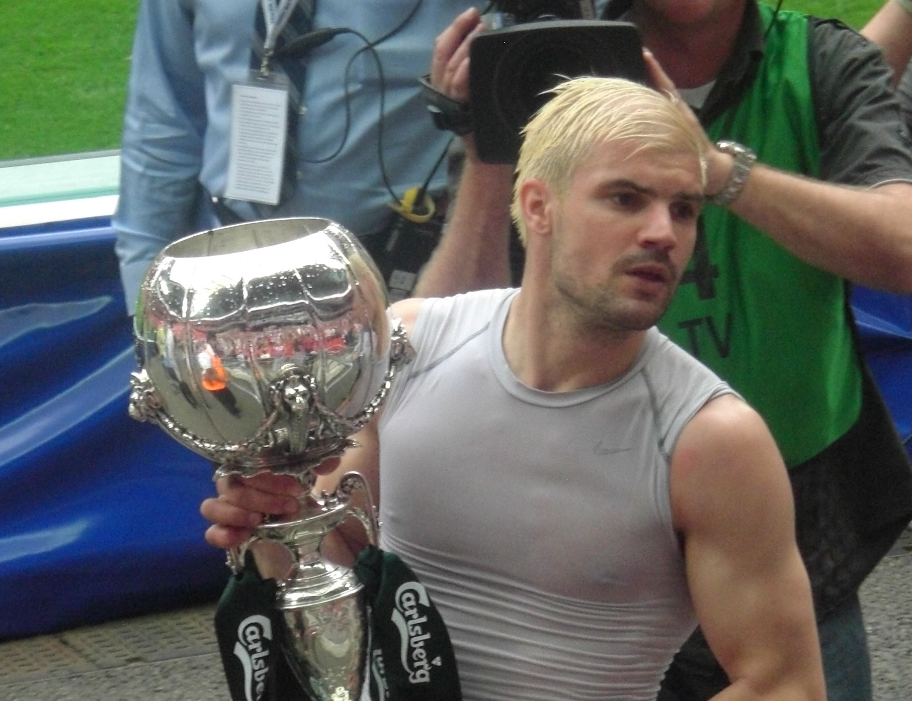 Sacha Opinel of Ebbsfleet United FC following their victory in the 2008 FA Trophy final at Wembley Stadium.